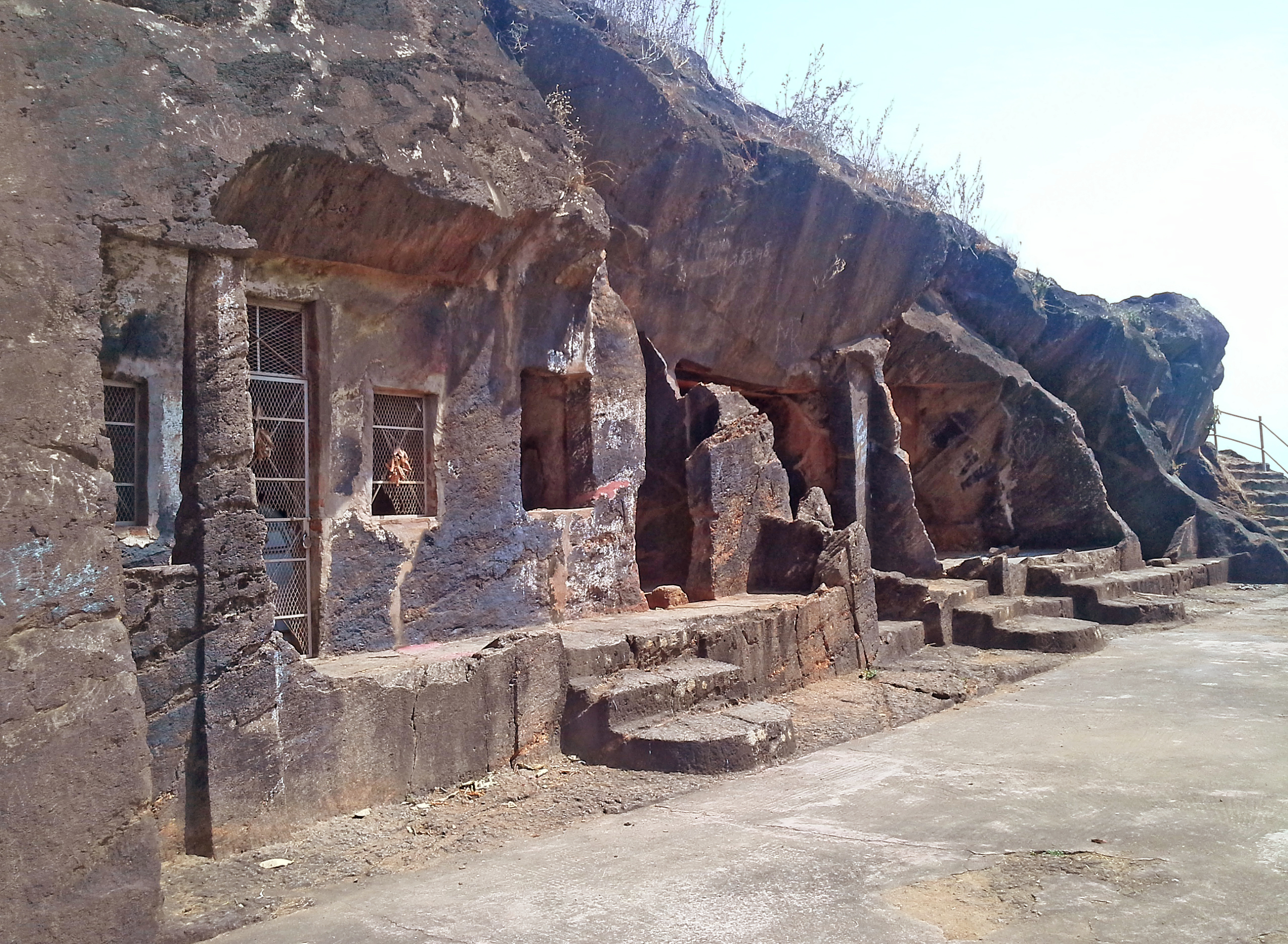 Rock cut caves at Kapavaram Buddhist monuments